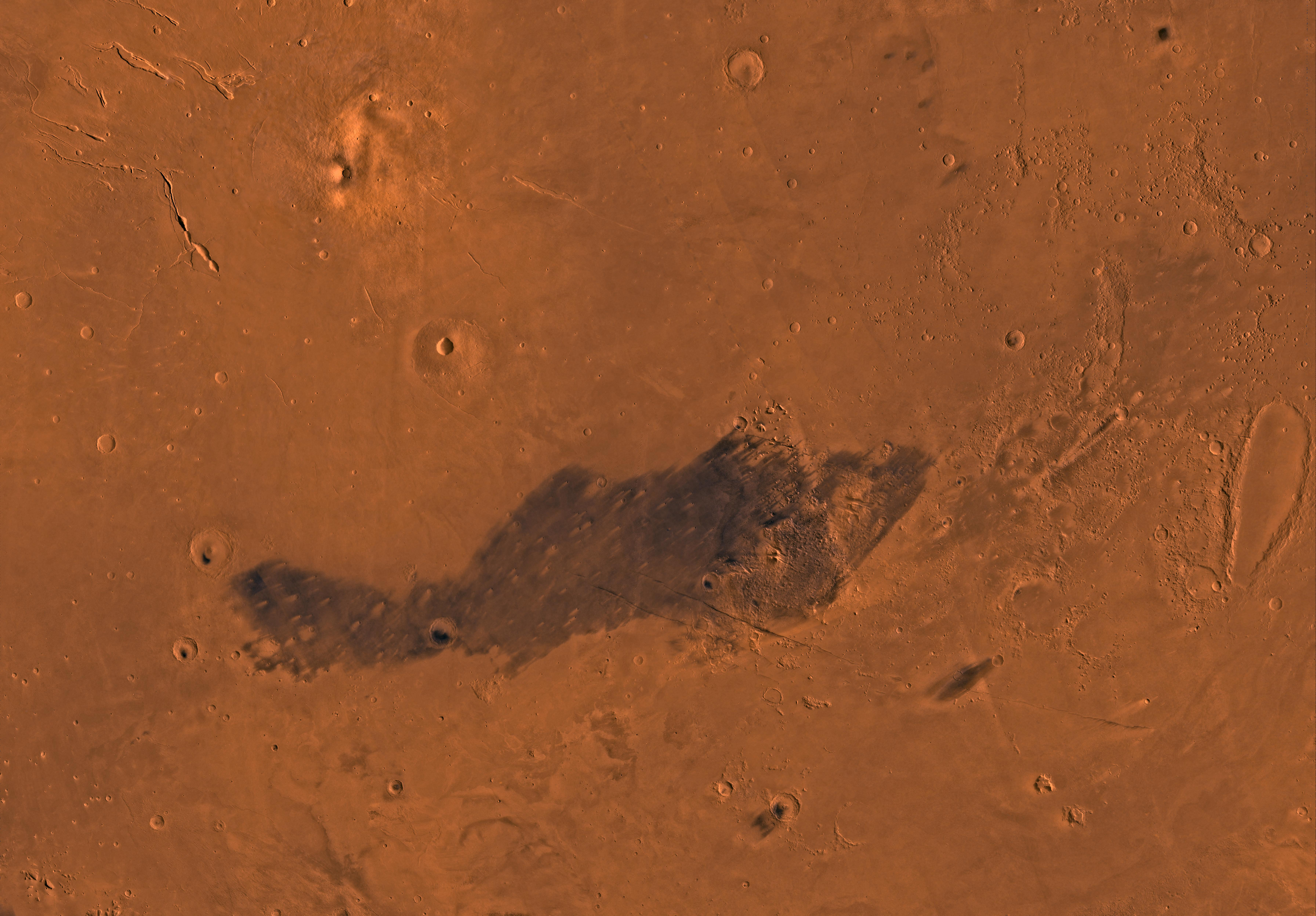 PIA00175: MC-15 Elysium Region Mars digital-image mosaic merged with color of the MC-15 quadrangle, Elysium region of Mars. The Elysium quadrangle includes relatively smooth lowland plains immediately north of the more cratered highlands. The plains are interrupted on the northwest by two large shield volcanoes, Elysium Mons and Albor Tholus. The plains are also marked by an elongate crater, Orcus Patera, at the east boundary and a band of knobby terrain that extends northeastward through the eastern part. Latitude range 0 to 30 degrees, longitude range -180 to -135 degrees.